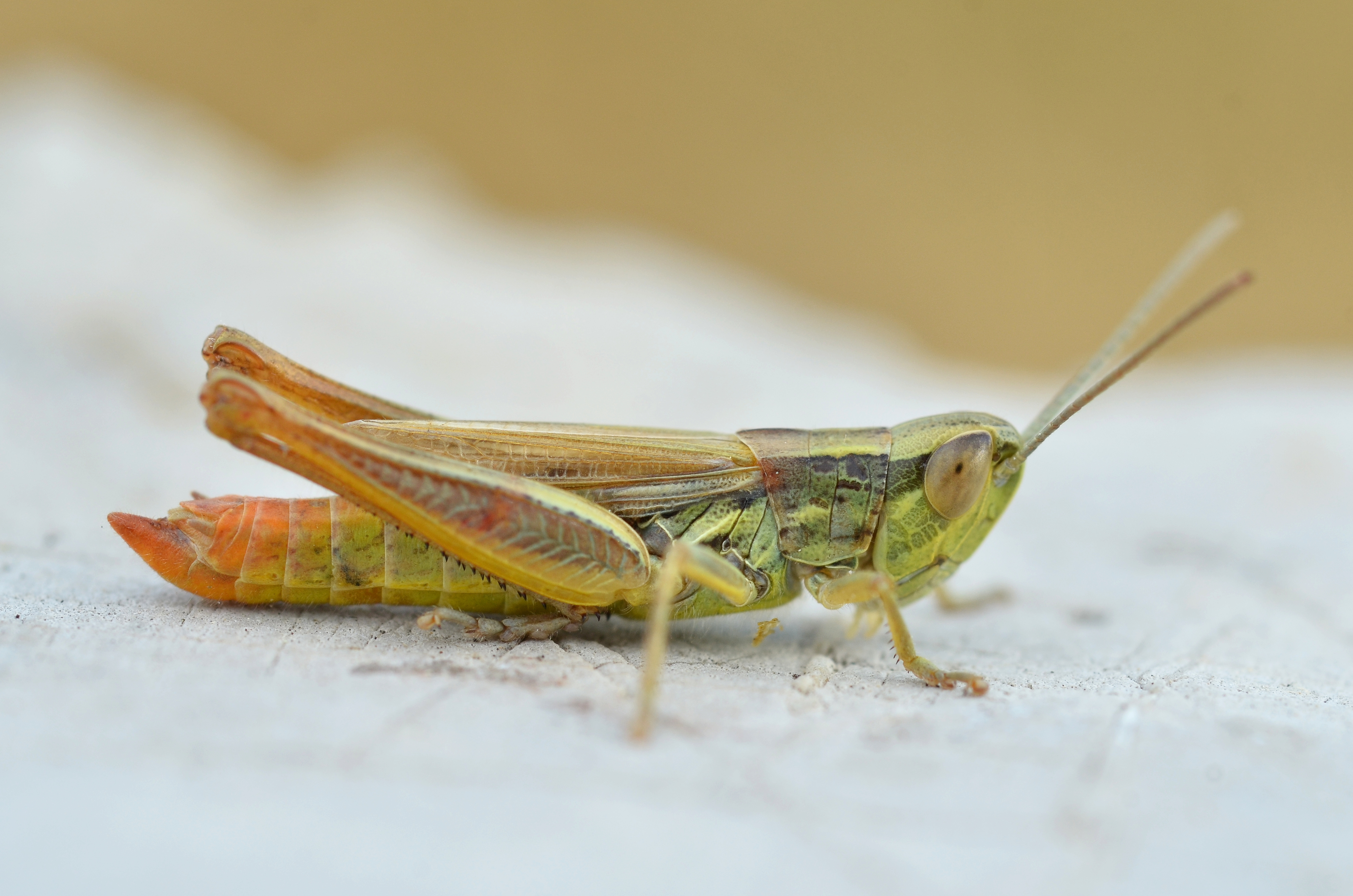 Euchorthippus declivus male